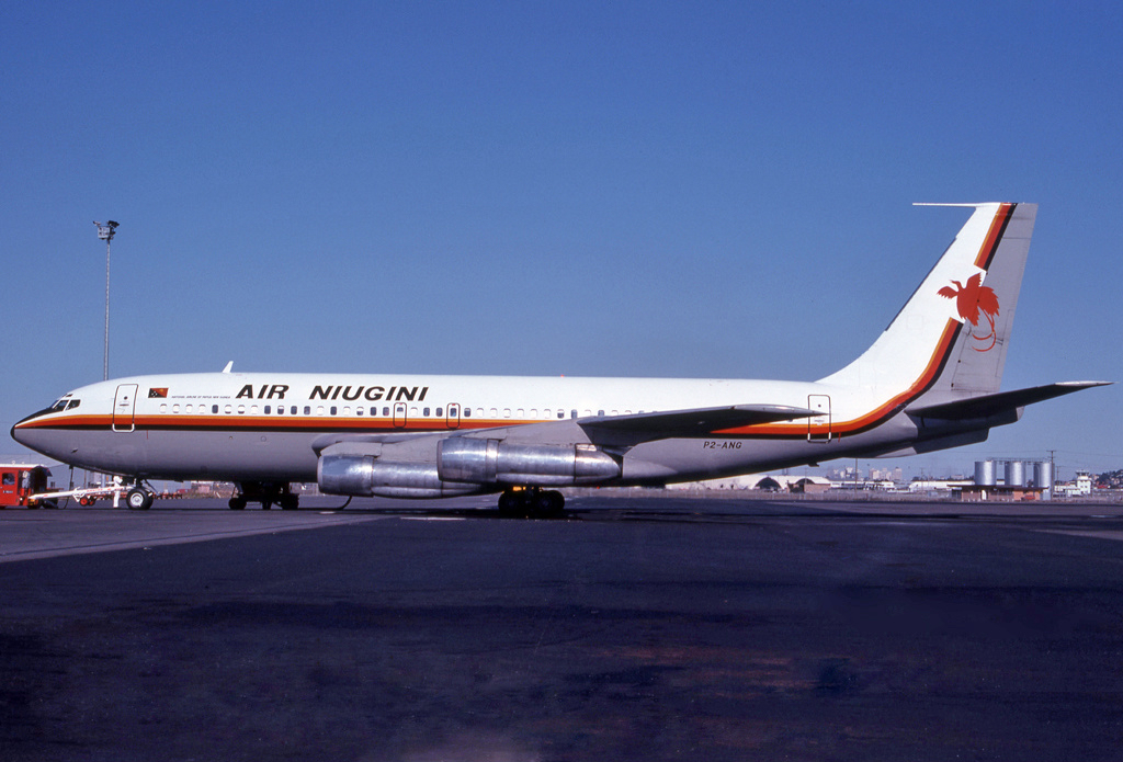 Air Niugini Boeing 720-023(B) at Sydney Airport